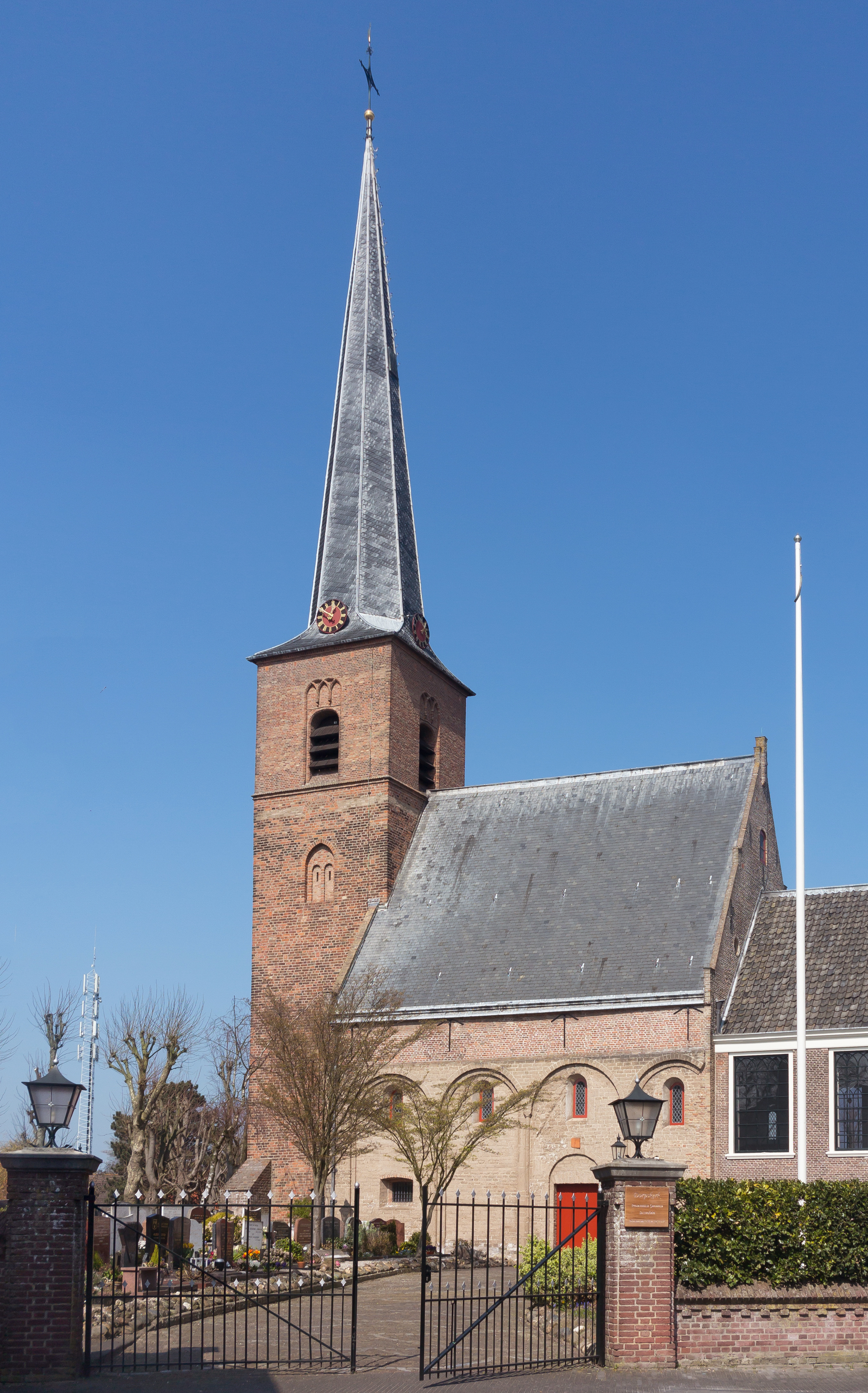 Sassenheim, church: de Dorpskerk-de Pancratiuskerk